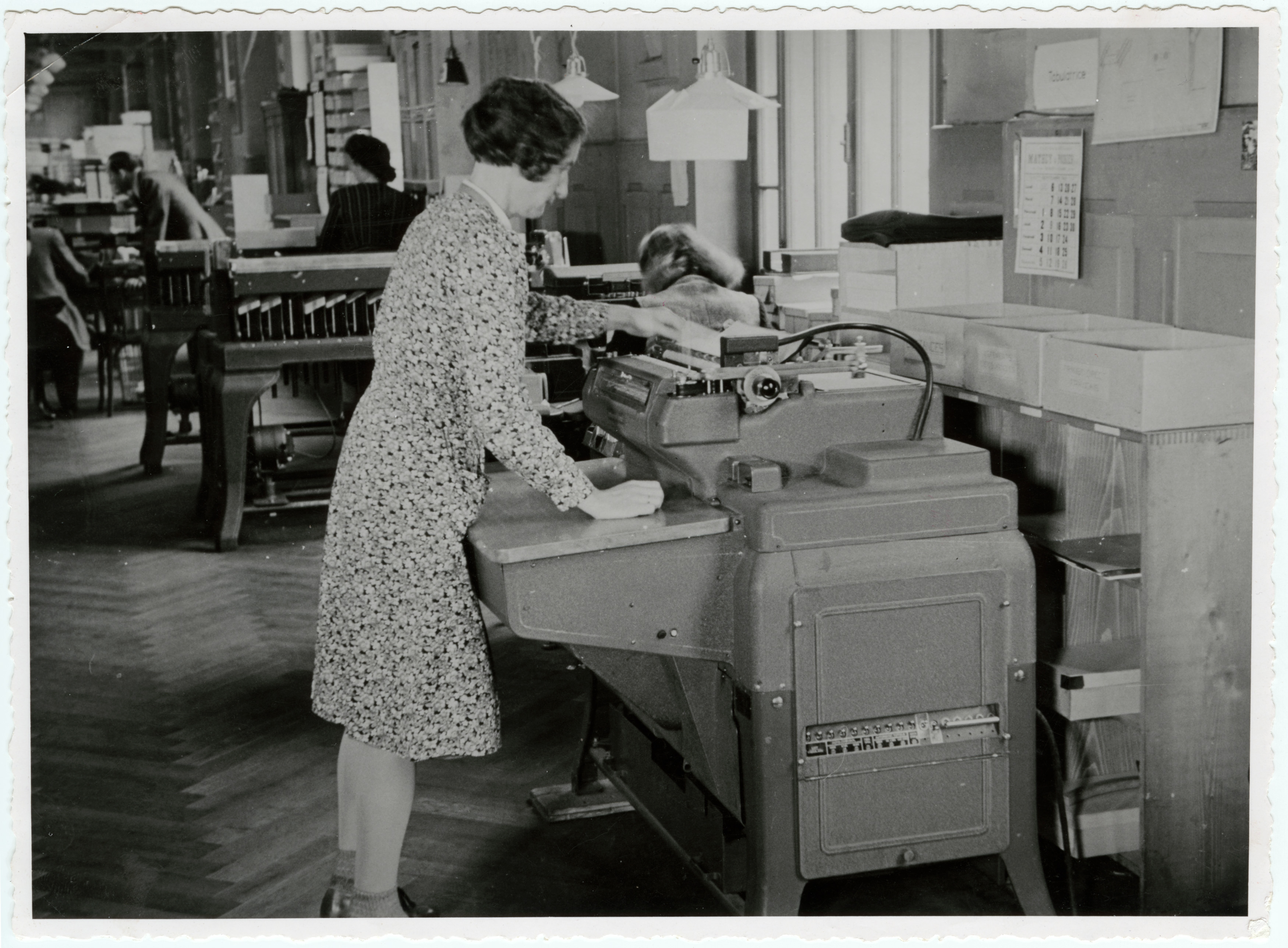 World War II 1939-1940. Agency Headquarters Geneva. IBM-Machines granted by IBM Director Watson in October 1939.